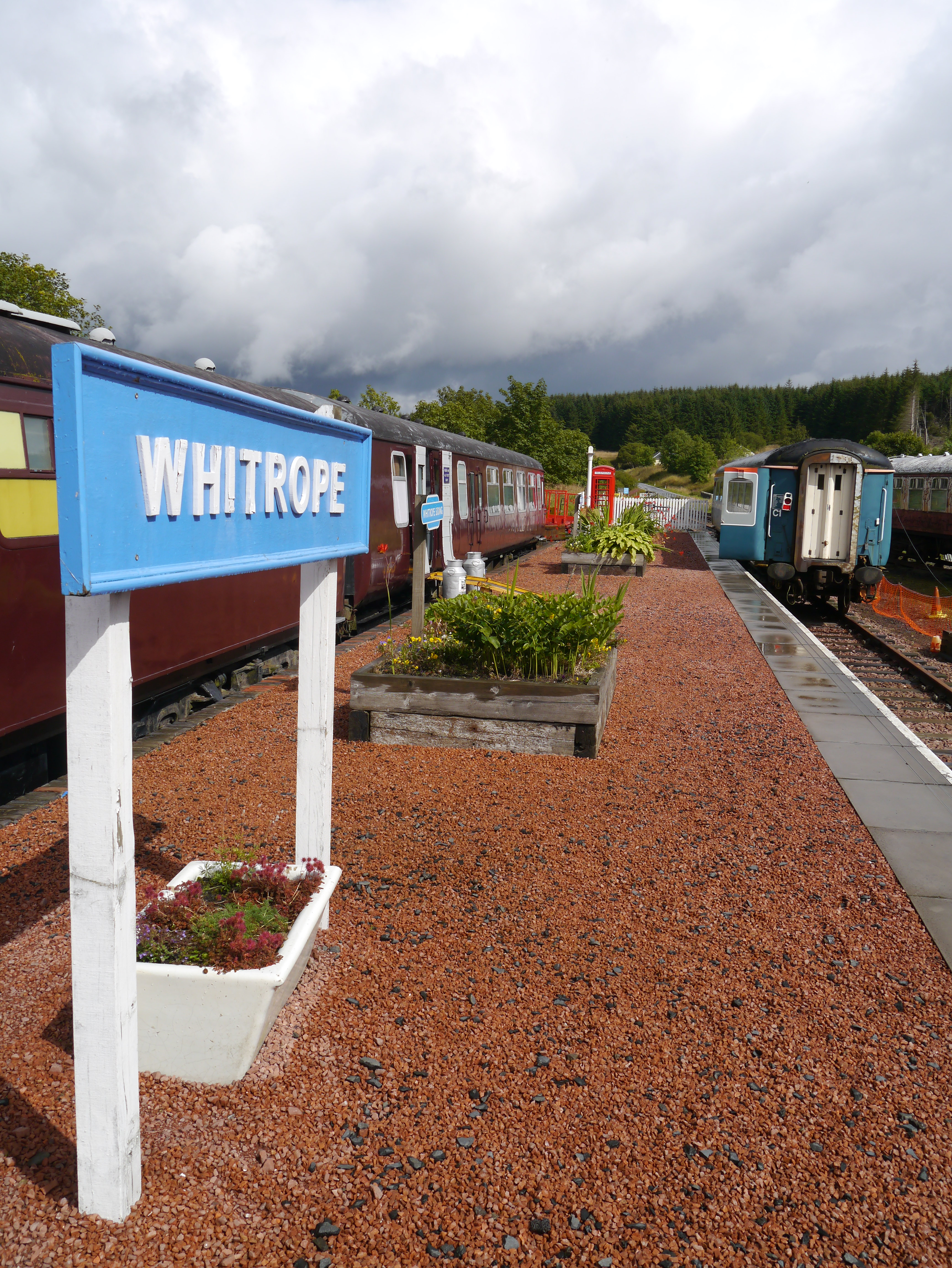 The Platform At Whitrope VA view of the platform at Whitrope Heritage Centre on a showery late summer day. This shot was taken during the centre's Open Weekend.